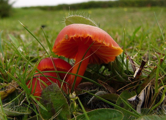 Scarlet Hood The Scarlet Hood (hygrocybe coccinea) is relatively uncommon. It is growing in the grass of a picnic site.